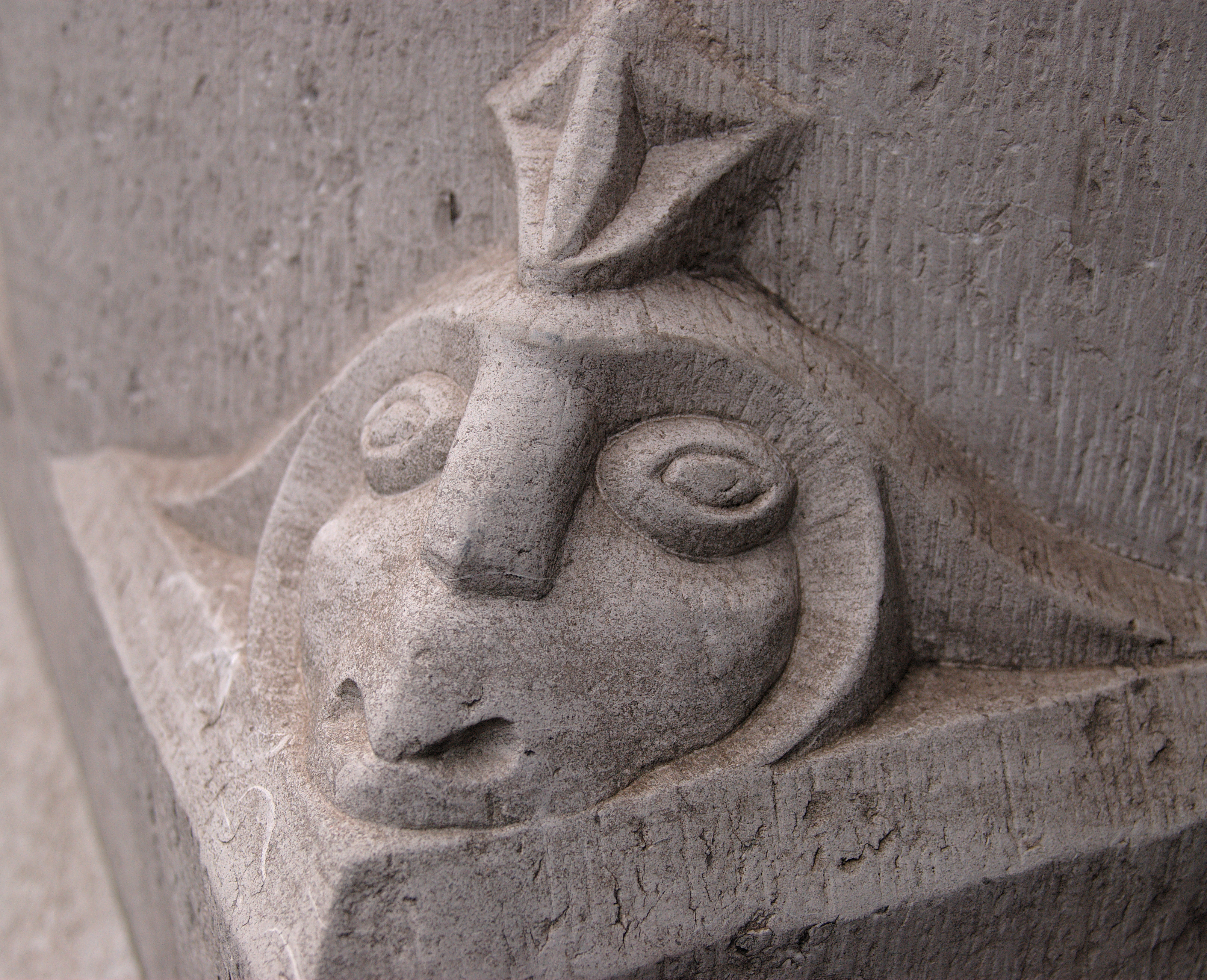 Liège in Belgium "Palais de justice".